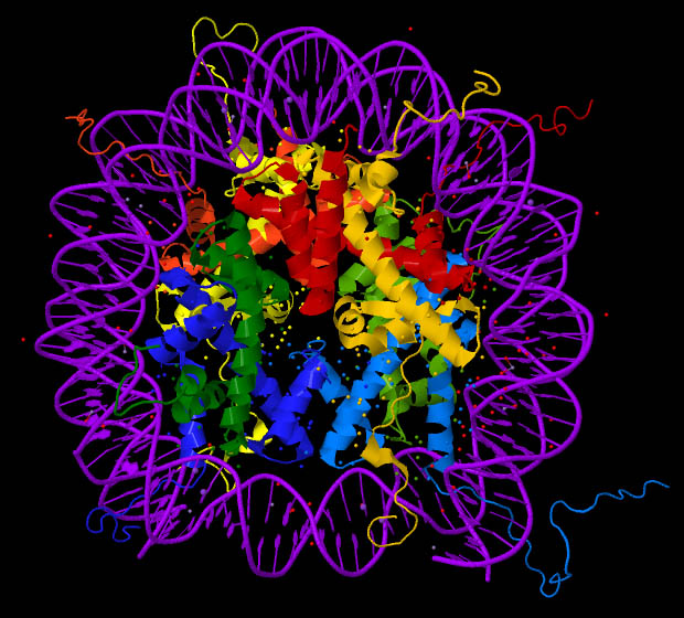 Nucleosome core particle, crystal structure (PDB ID: 1EQZ). Histones H2A, H2B, H3 and H4 are coloured.This image was created with Jmol (an open-source Java viewer for chemical structures in 3D and Adobe Photoshop Elements.